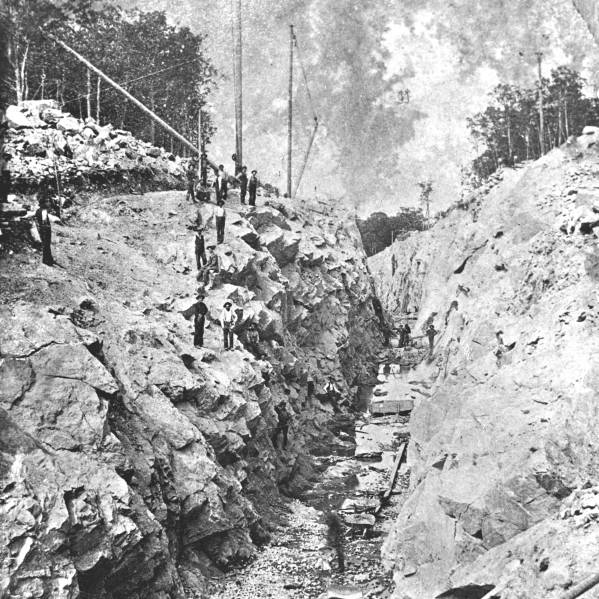 Title: "Rock cut." A railroad cut along the Iron Range and Huron Bay Railroad, Arvon Township, Baraga County, Michigan. The IR&HB faced hilly country throughout; some grades reached 5-8%. This image is taken from the Upper Peninsula Digitization Center Collections and is believed to be in the public domain.